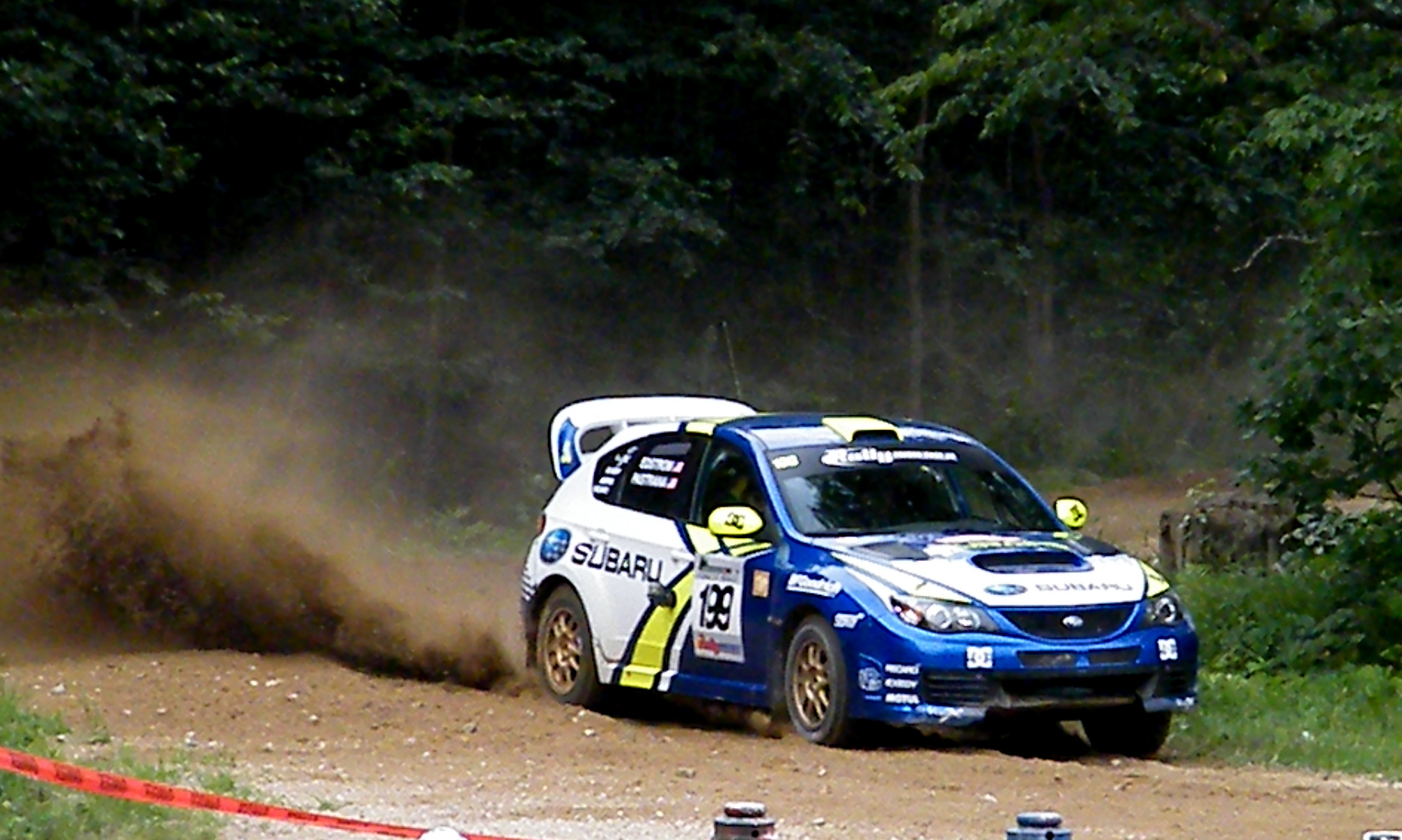 Travis Pastrana and co-driver Christian Edstrom in their 2010 Subaru Impreza WRX STi at the 2010 New England Forest Rally. Round 6 of the 2010 Rally America National Championship.